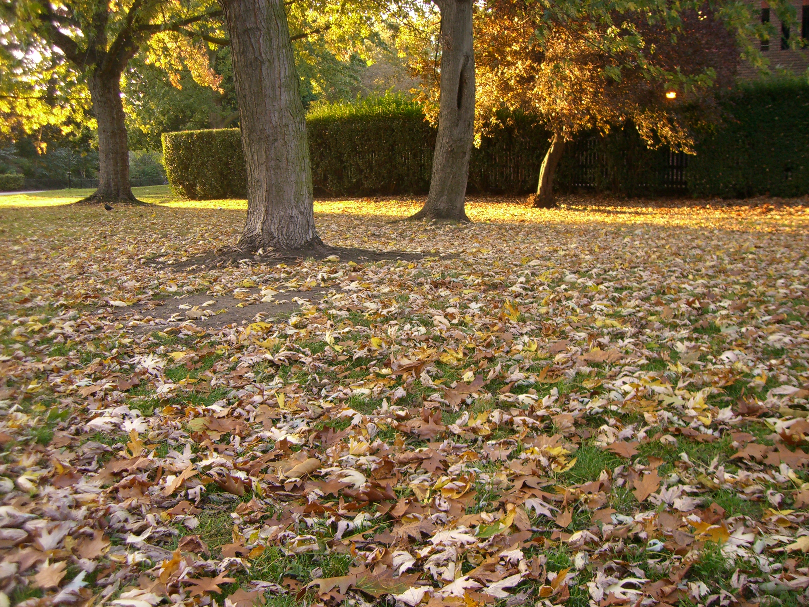 Maple leaves in autumn, Southwark Park, London, UK